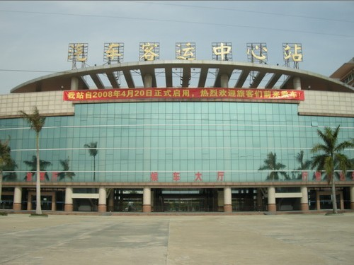 swatown qichekeyunzhongxinzhan